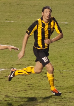 Juan Manuel Olivera during the second leg of the 2011 Copa Libertadores final.